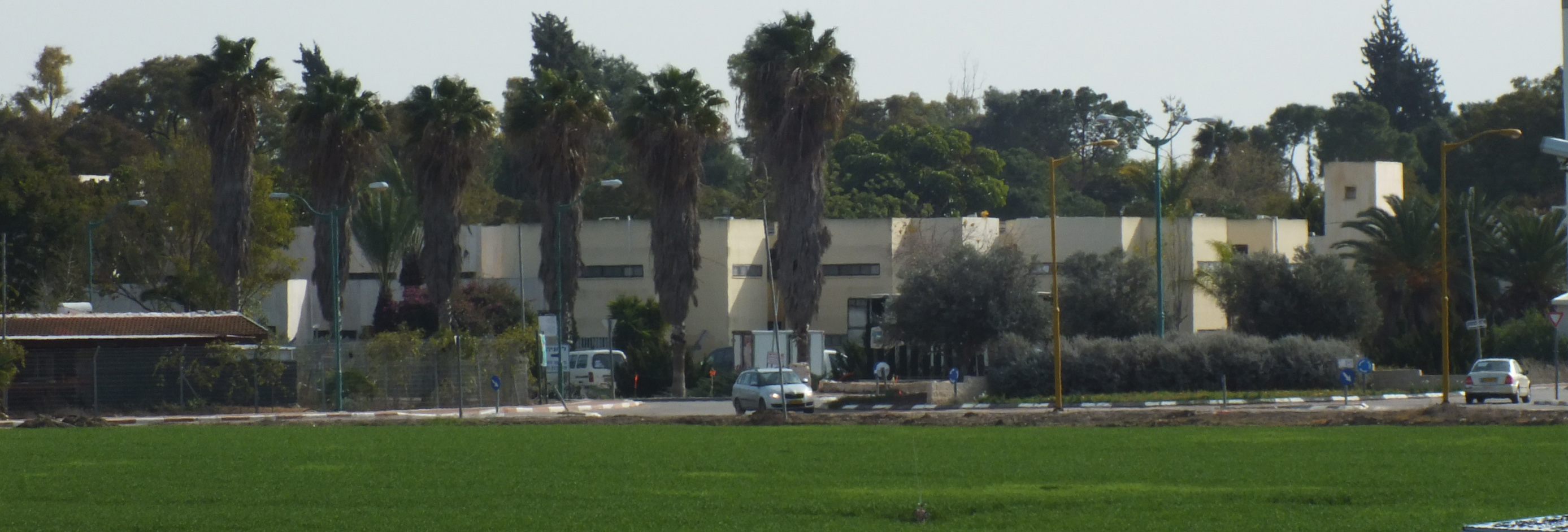 Ein Tzurim, a religious kibbutz in the Shfela plains off Road 3, is the only kibbutz in the small Shafir municipality. It is named after a historic place of the same name that had fallen within the Jordanian side of the 1949 cease-fire lines, now a Palestinian territory.